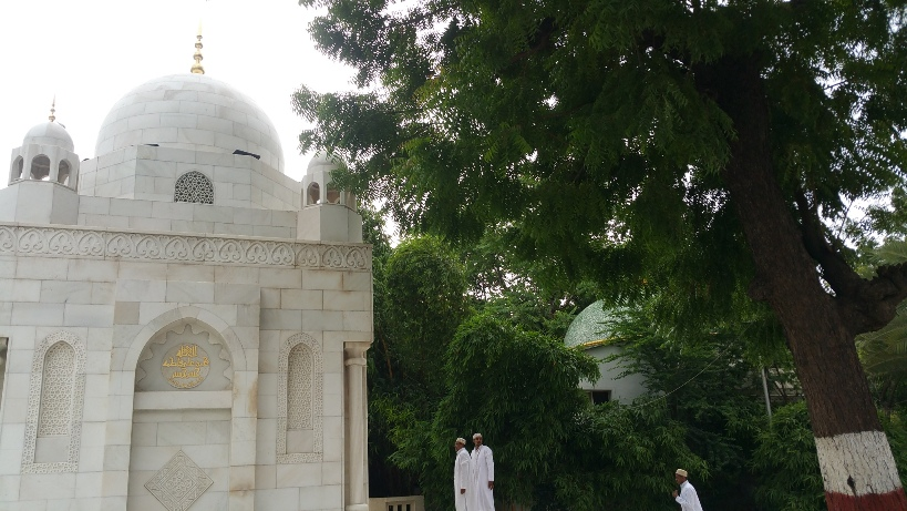 converging point of all 3 Bohras communities